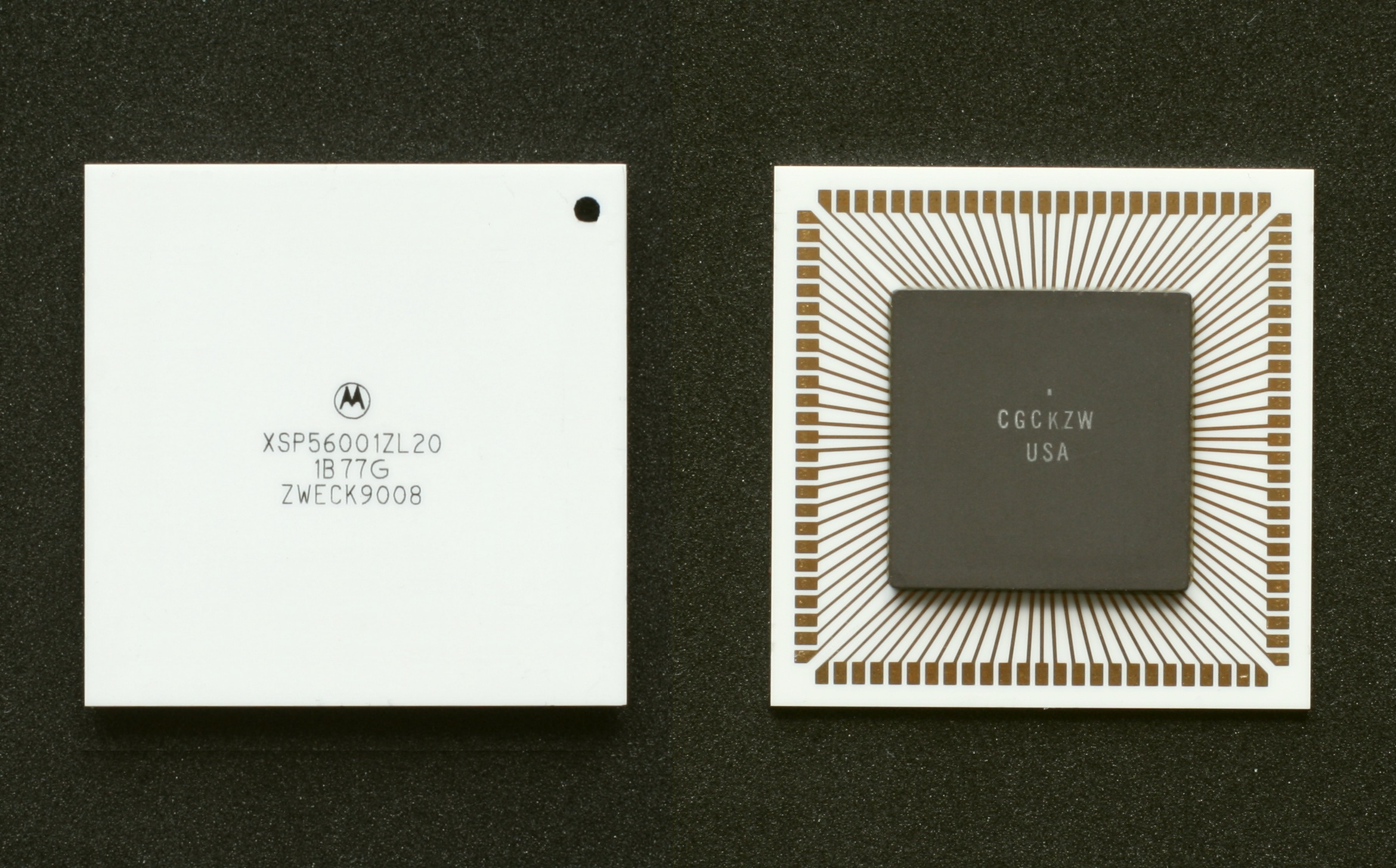 DSP Motorola XSP56001ZL.